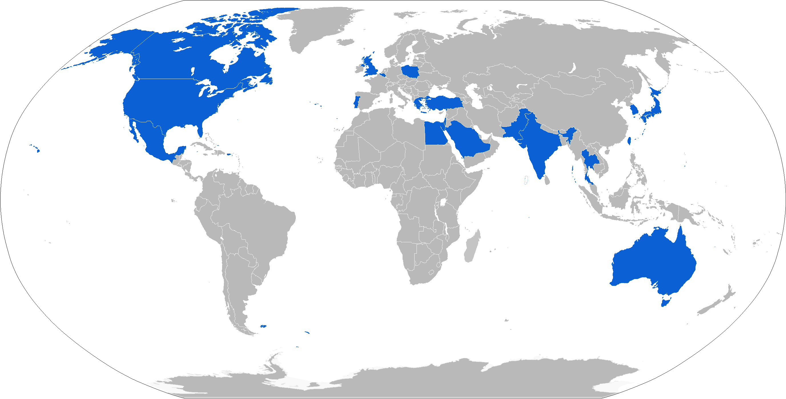 Map of Phalanx CIWS operators in blue